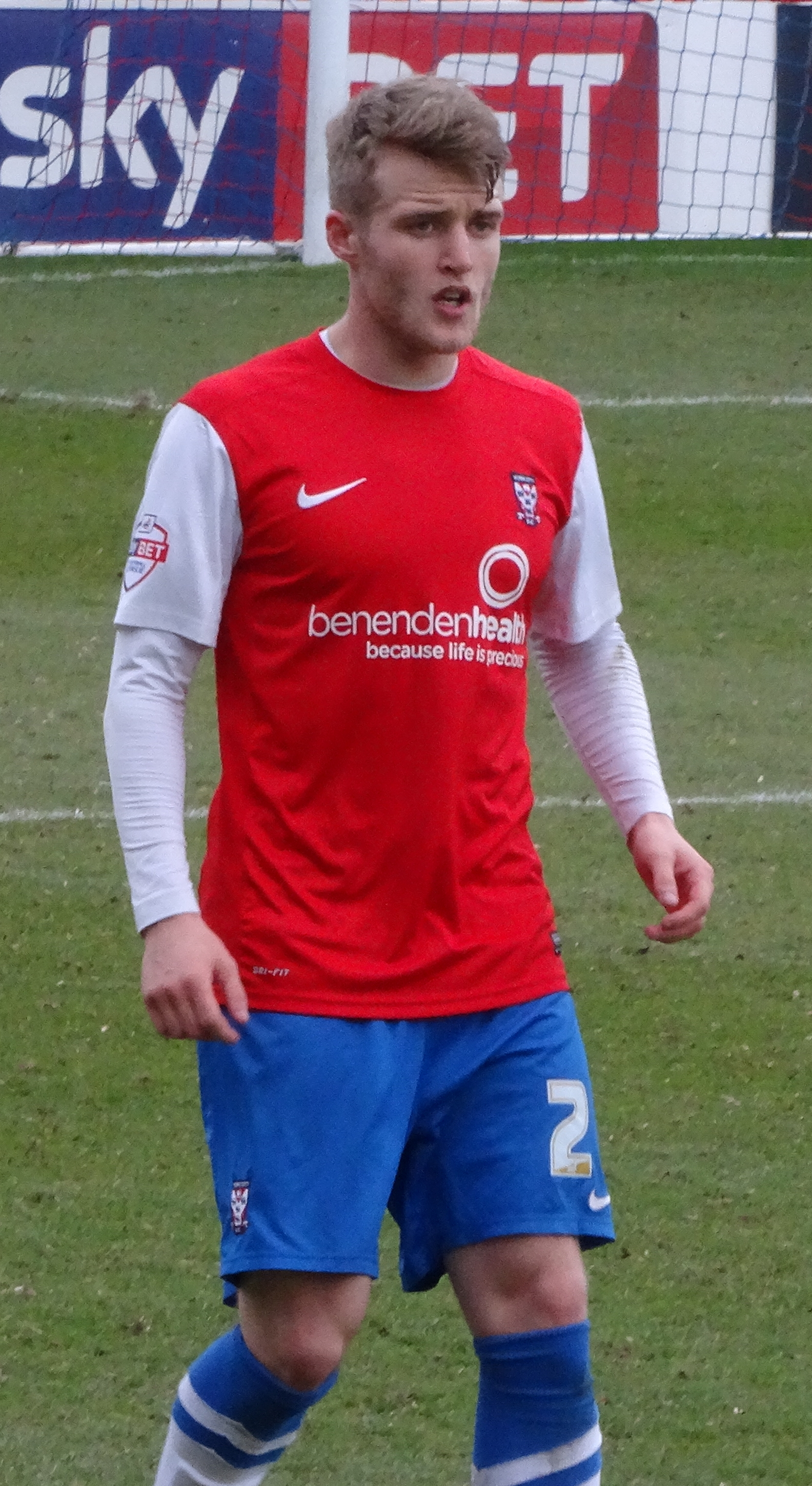 Will Hayhurst playing for York City against Wycombe Wanderers at Bootham Crescent, York on 15 March 2014